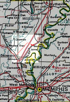 Map of the Delta Valley and Southern Railway based on a map of the National Atlas 1970 Red - Line in use, Pink - Abandoned line